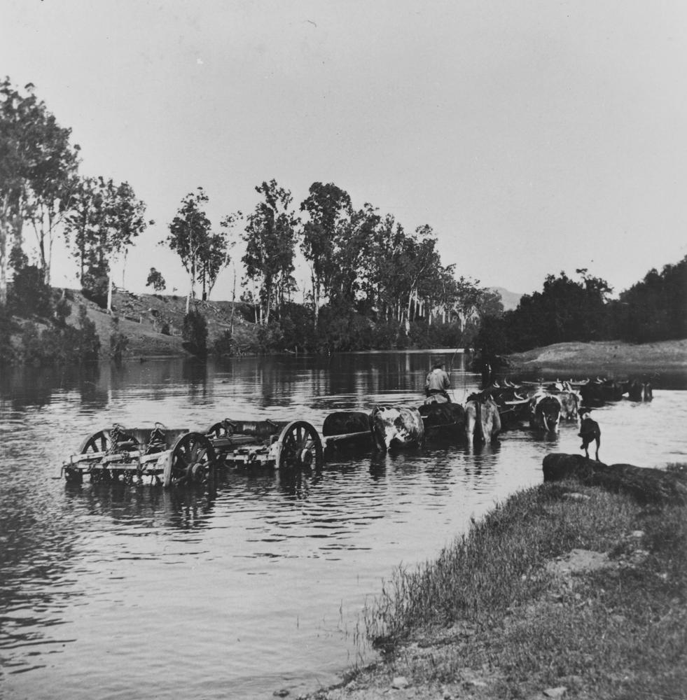 Bullock team crossing the Brisbane River, Fernvale, 1914 Bullock team pulling a wagon, crossing the Brisbane River above Fernvale.